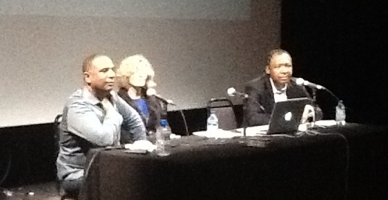 Stan Douglas, Christine Ross and Okwui Enwezor at Musée d'art contemporain de Montréal